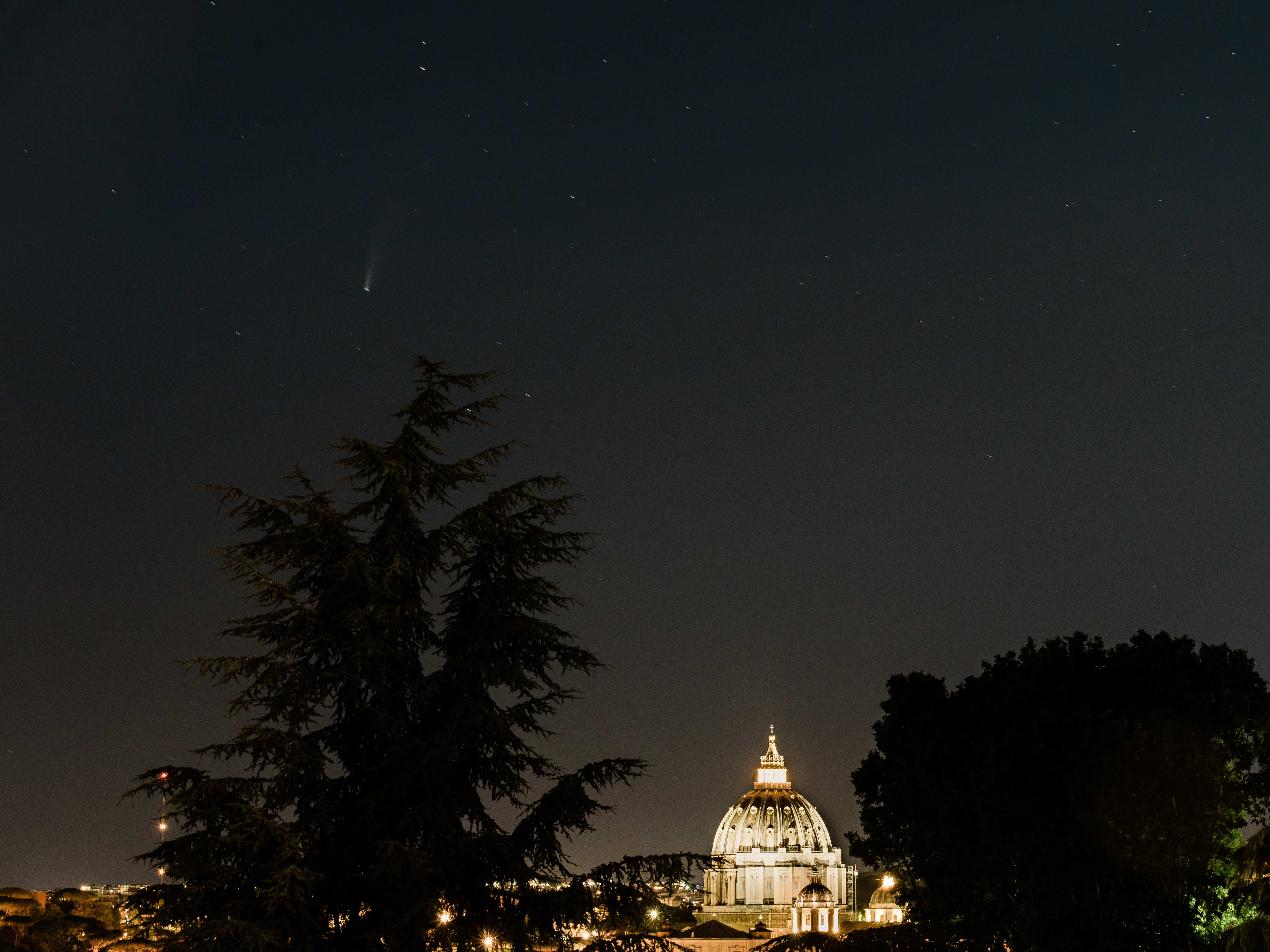 Comet C/2020 F3 Neowise seen from the Gianicolo Hill at 11pm on 19 July 2020 in Rome, Italy, with St Peter's dome to the right